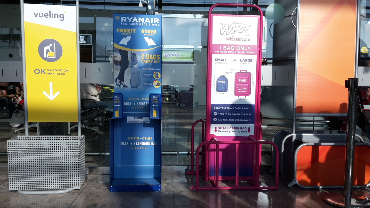 Airport bag size checker in Airport Elche, Alicante.